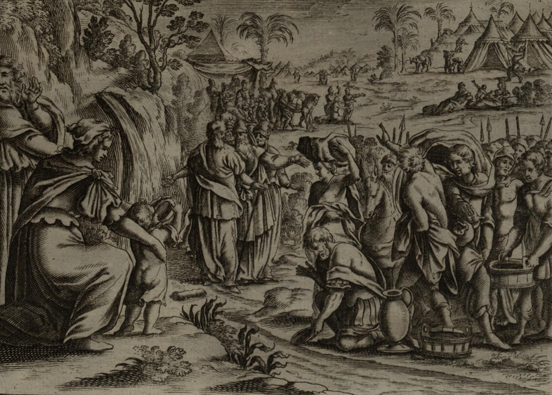 The Water of Marah, engraving by Gérard Jollain, published in "La Saincte Bible, Contenant le Vieil and la Nouveau Testament, Enrichie de plusieurs belles figures/Sacra Biblia, nouo et vetere testamento constantia eximiis que sculpturis et imaginibus illustrata, De Limprimerie de Gerard Jollain"